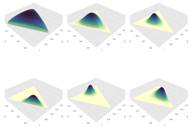 A panel illustrating probability density functions of a few Dirichlet distributions over a 2-simplex, for the following alpha vectors (clockwise, starting from the upper left corner): (1.3, 1.3, 1.3), (3,3,3), (7,7,7), (2,6,11), (14, 9, 5), (6,2,6).